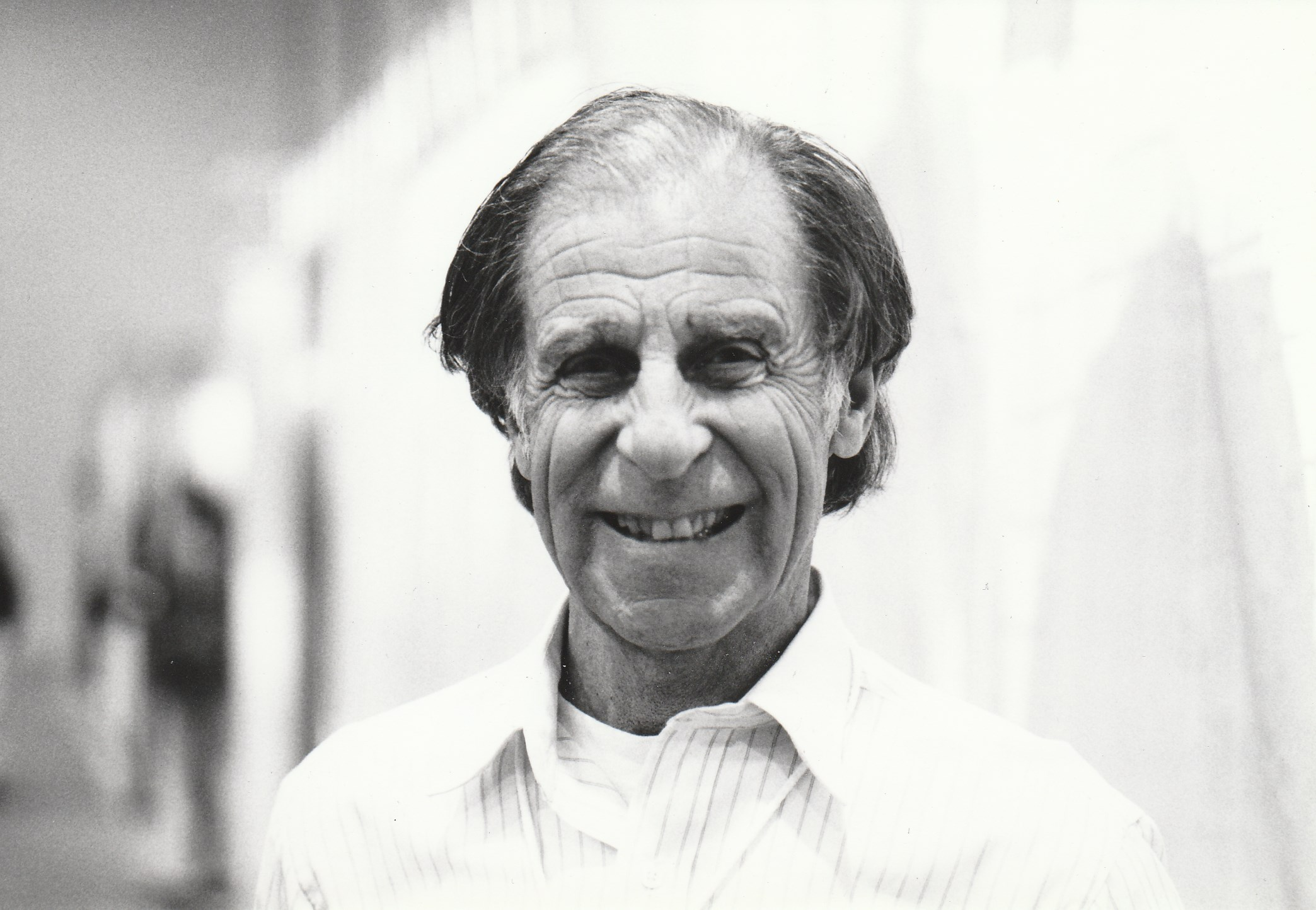 Fred Beckey visits the trade show in Salt Lake City, about 1990. Photo by Pat Ament.